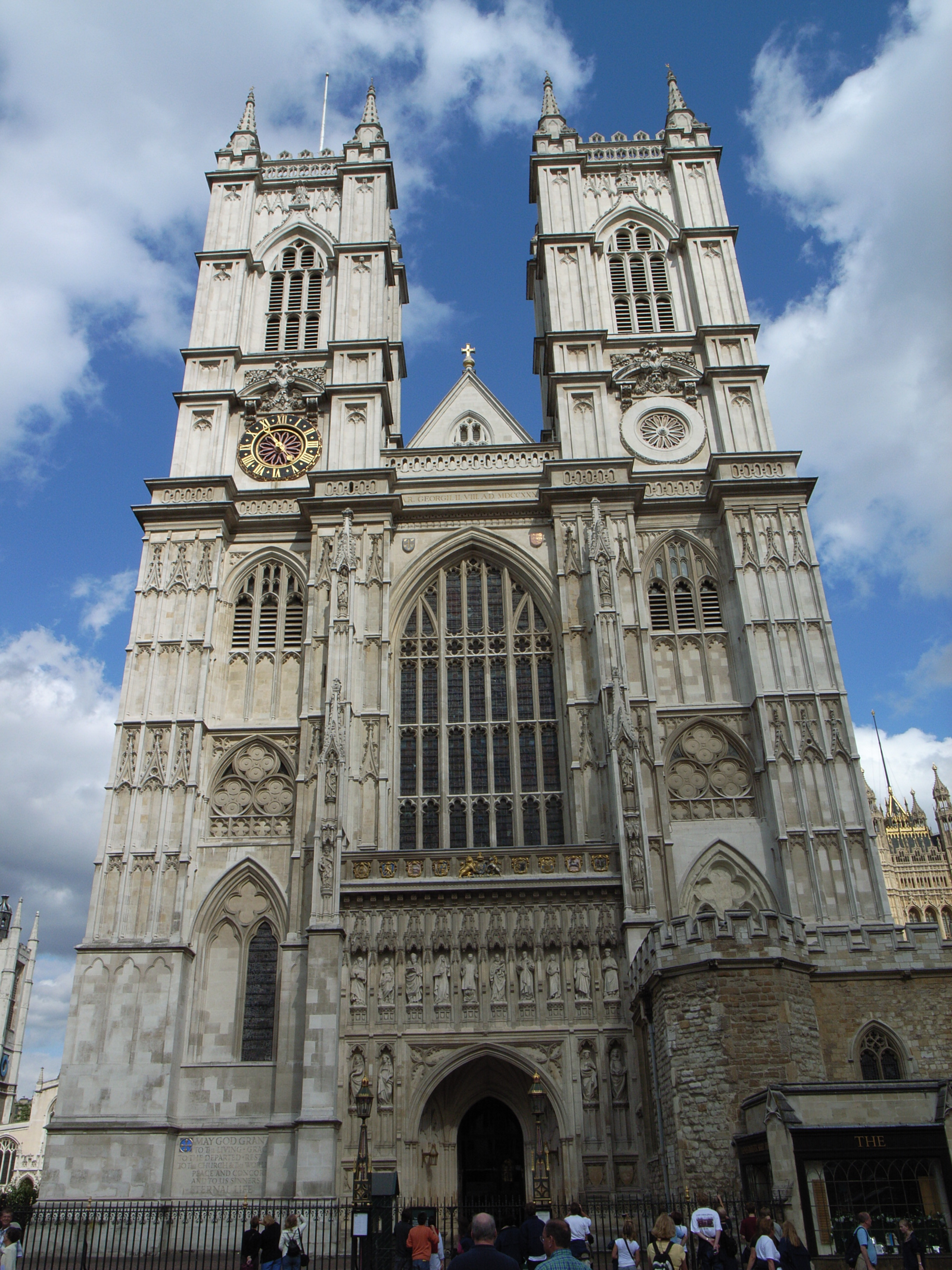 Westminster Abbey, towers by Nicholas Hawksmoor